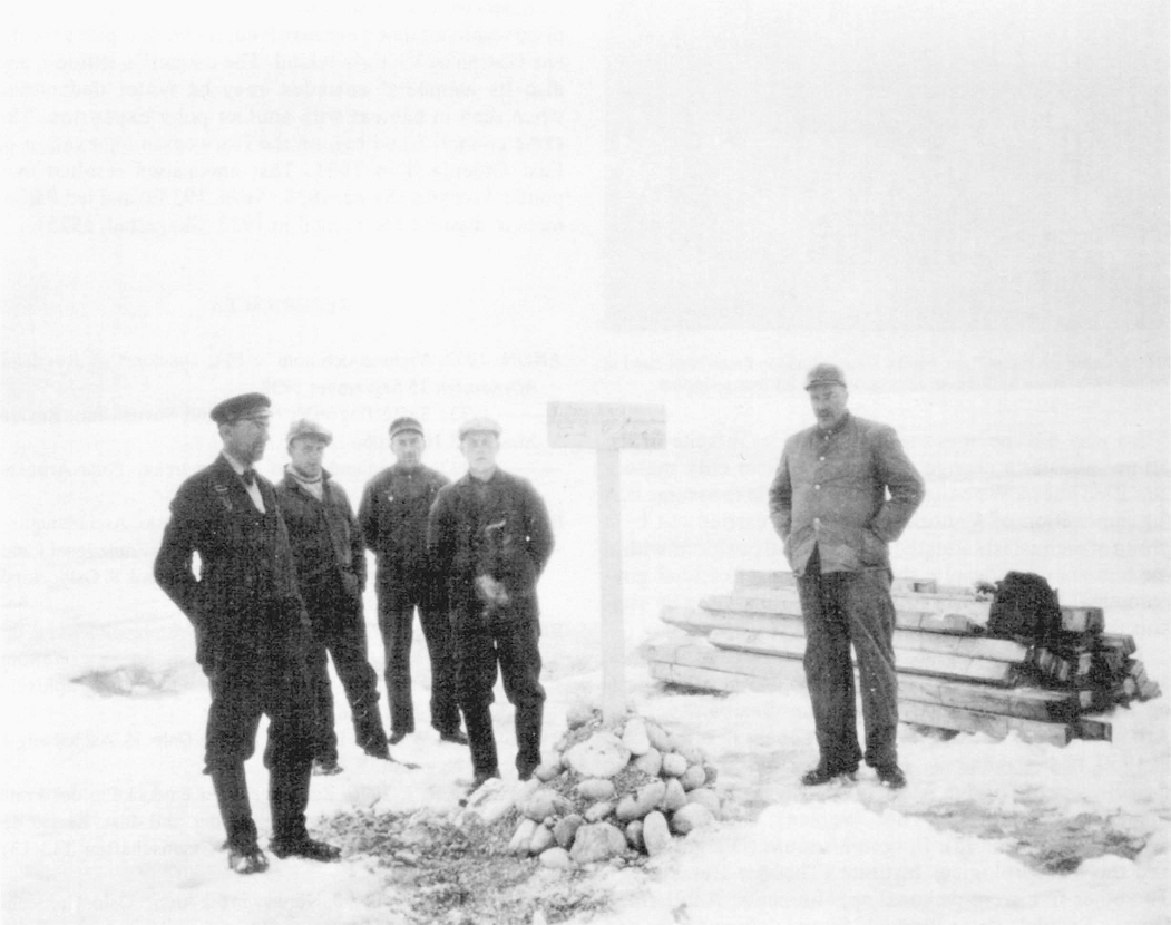 5 crewmembers of the Norwegian ship Bratvaag posing next to the symbol which contains a text that Victoria Island is claimed for shipowner Harald M. Leite (and thereby de facto for the Norwegian crown). In the back building material for a hut, which was not constructed due to the impossibility to guard it against storms. The claim, which was put up in secrecy, was never made official by the Norwegian authorities, which secretly supported the claim but perhaps feared a conflict with the Soviet Union. Two years later on the island was erected a Soviet flag to effectuate a Soviet claim from 1926 (disputed by Norway), annexing the island and Franz Jozefland to the Soviet Union.